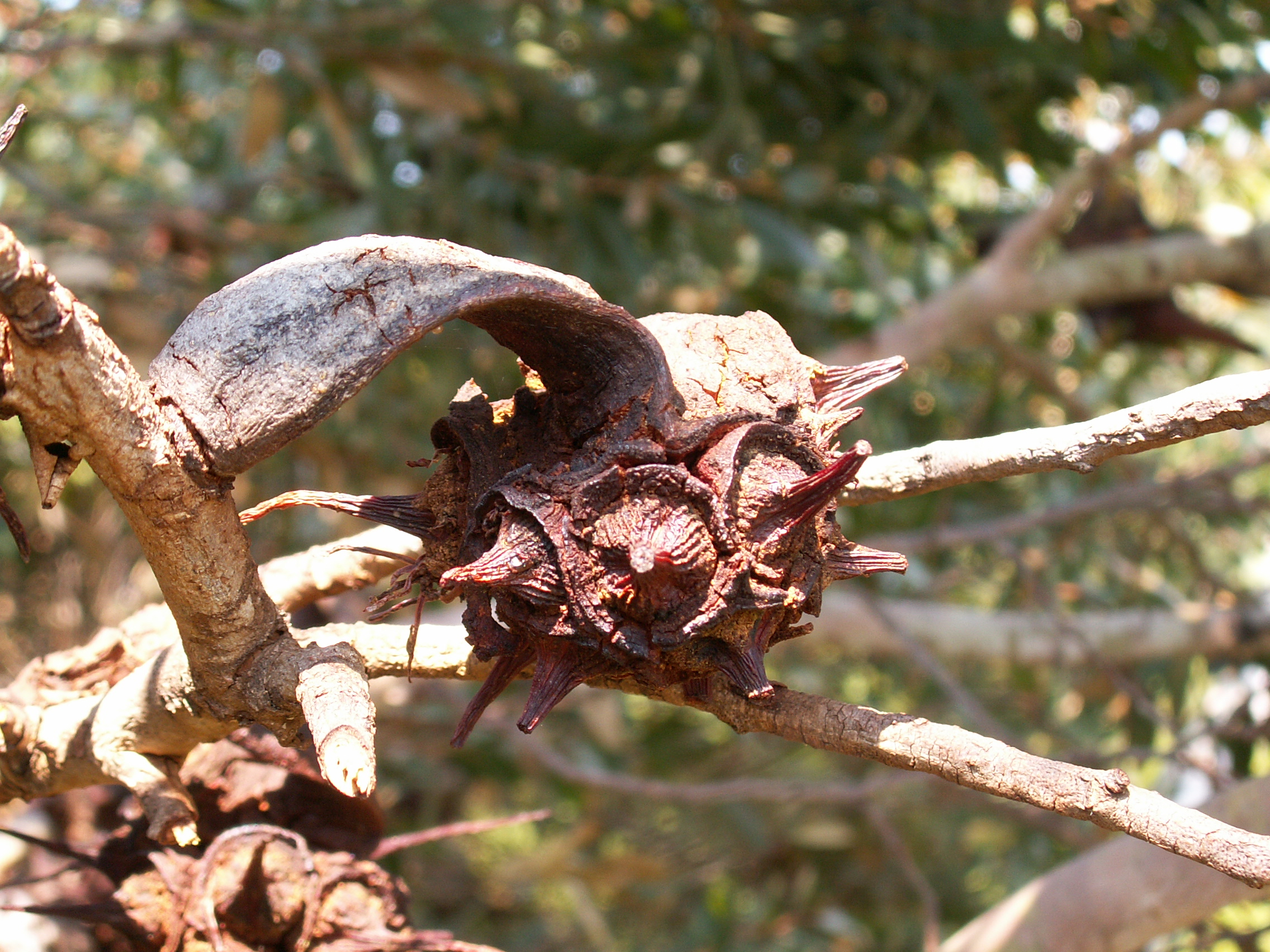 near Albany, Western Australia